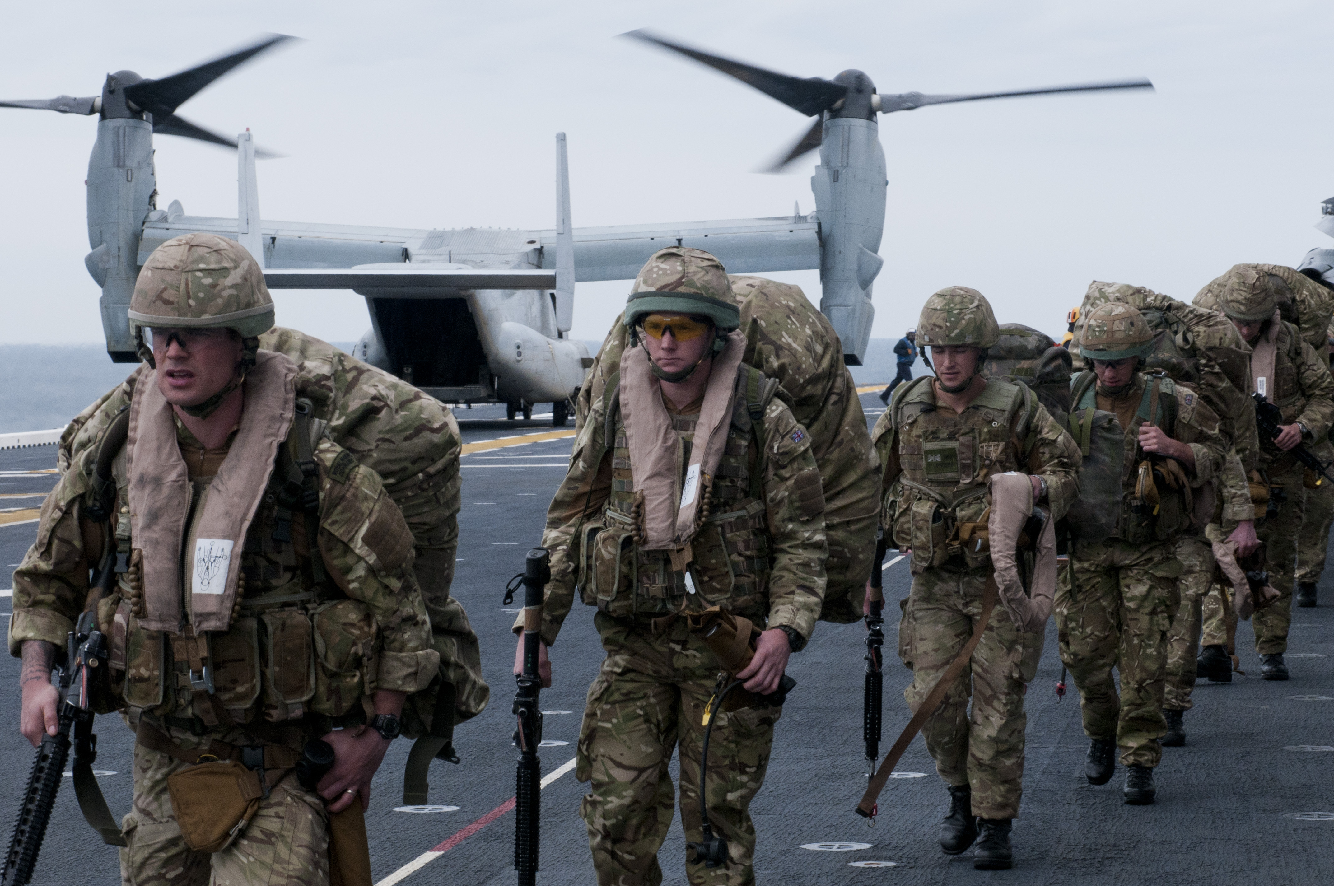 British Royal Marine commandos walk the flight deck of the amphibious assault ship USS Kearsarge (LHD 3) to load into a CH-53E Super Stallion helicopter during the amphibious assault phase of Bold Alligator 2012. Exercise Bold Alligator 2012, the largest naval amphibious exercise in the past 10 years, represents the Navy and Marine Corps' revitalization of the full range of amphibious operations. The exercise focuses on today's fight with today's forces, while showcasing the advantages of seabasing. This exercise will take place Jan. 30 through Feb. 12, 2012 afloat and ashore in and around Virginia and North Carolina. #BA12 (U.S. Navy photo by Mass Communication Specialist 1st Class Tommy Lamkin/Released)